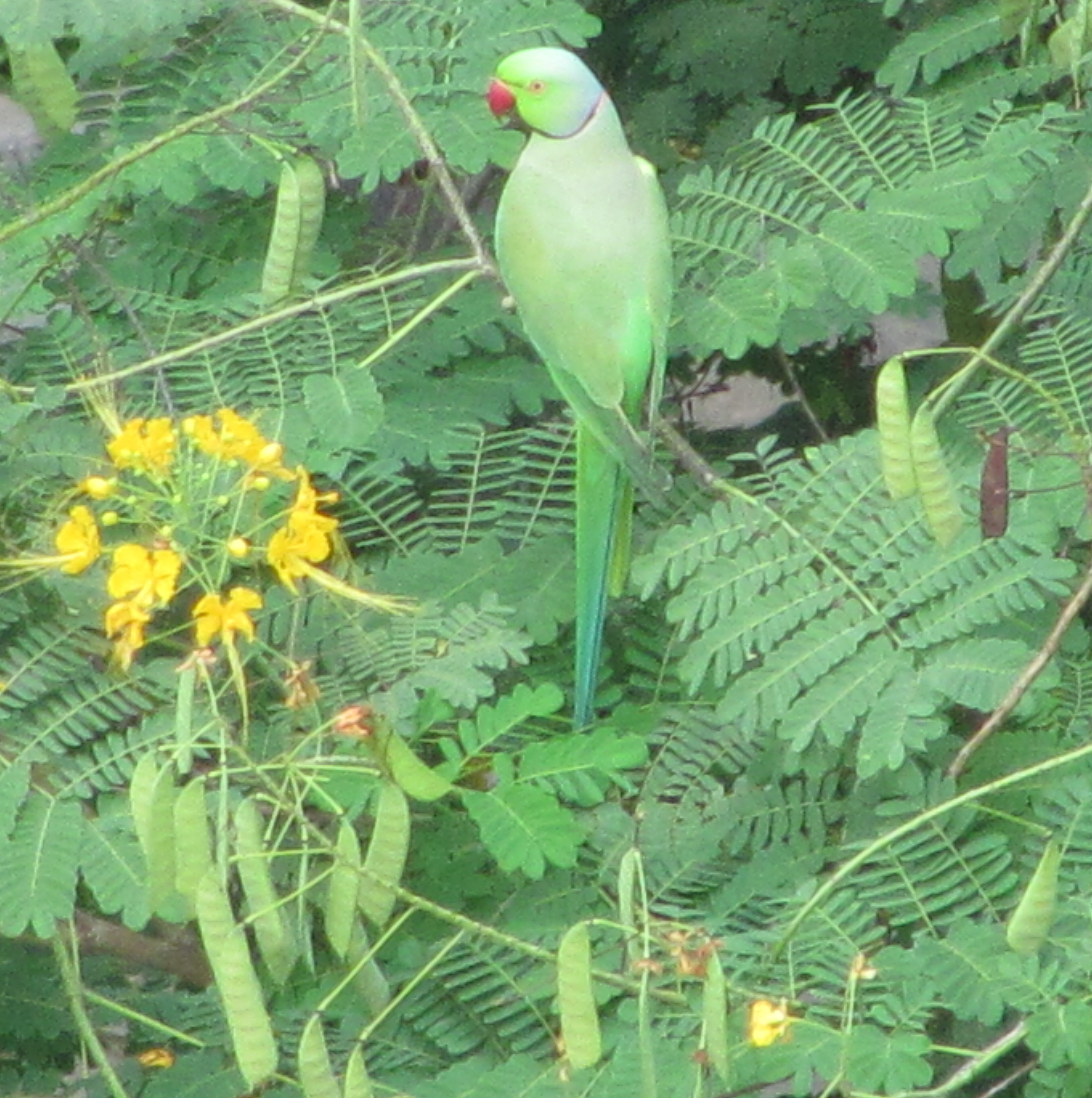 A Rose-ringed Parakeet in Pune, Maharashtra, India.